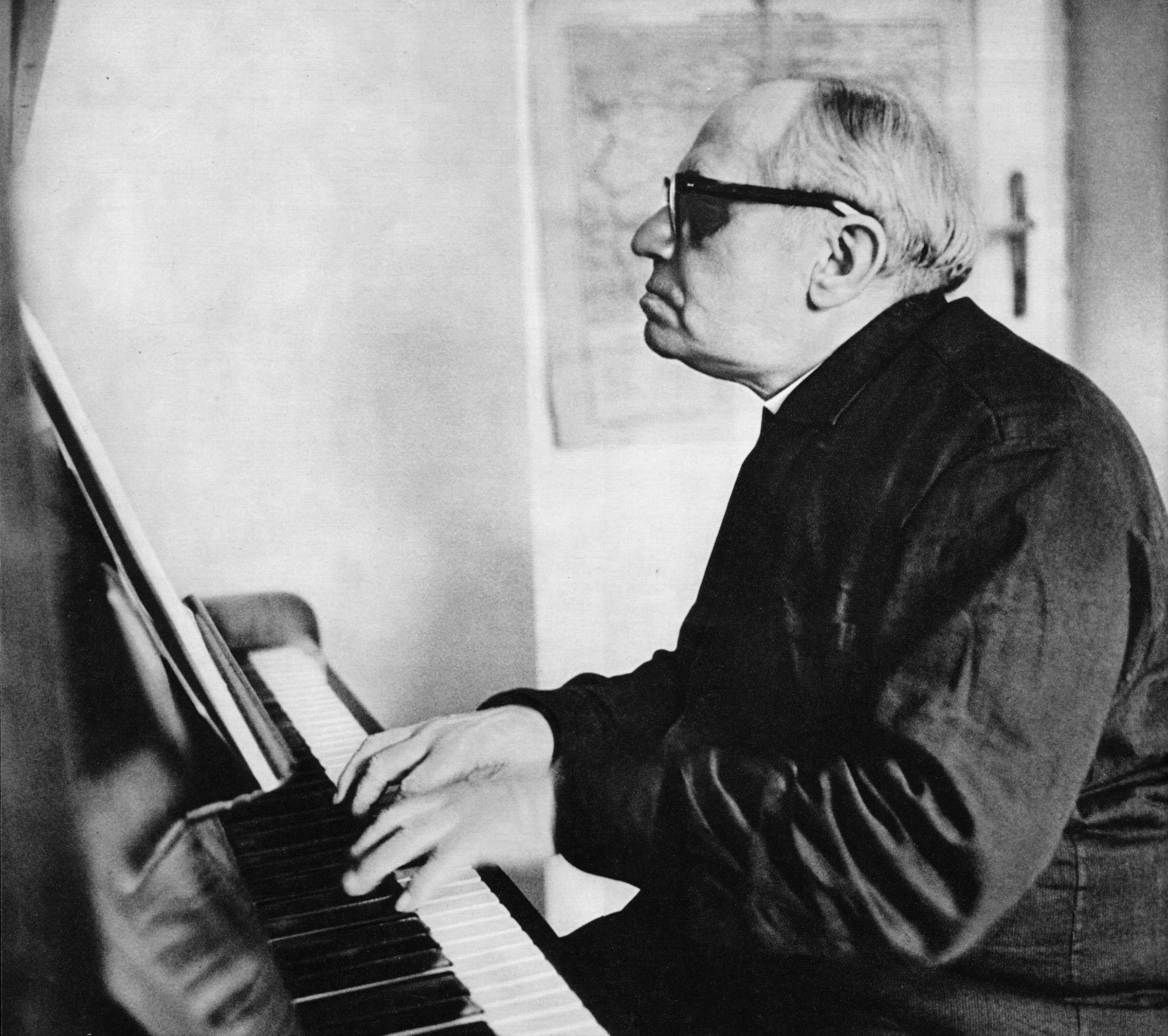 Hieronim Feicht, Polish musicologist